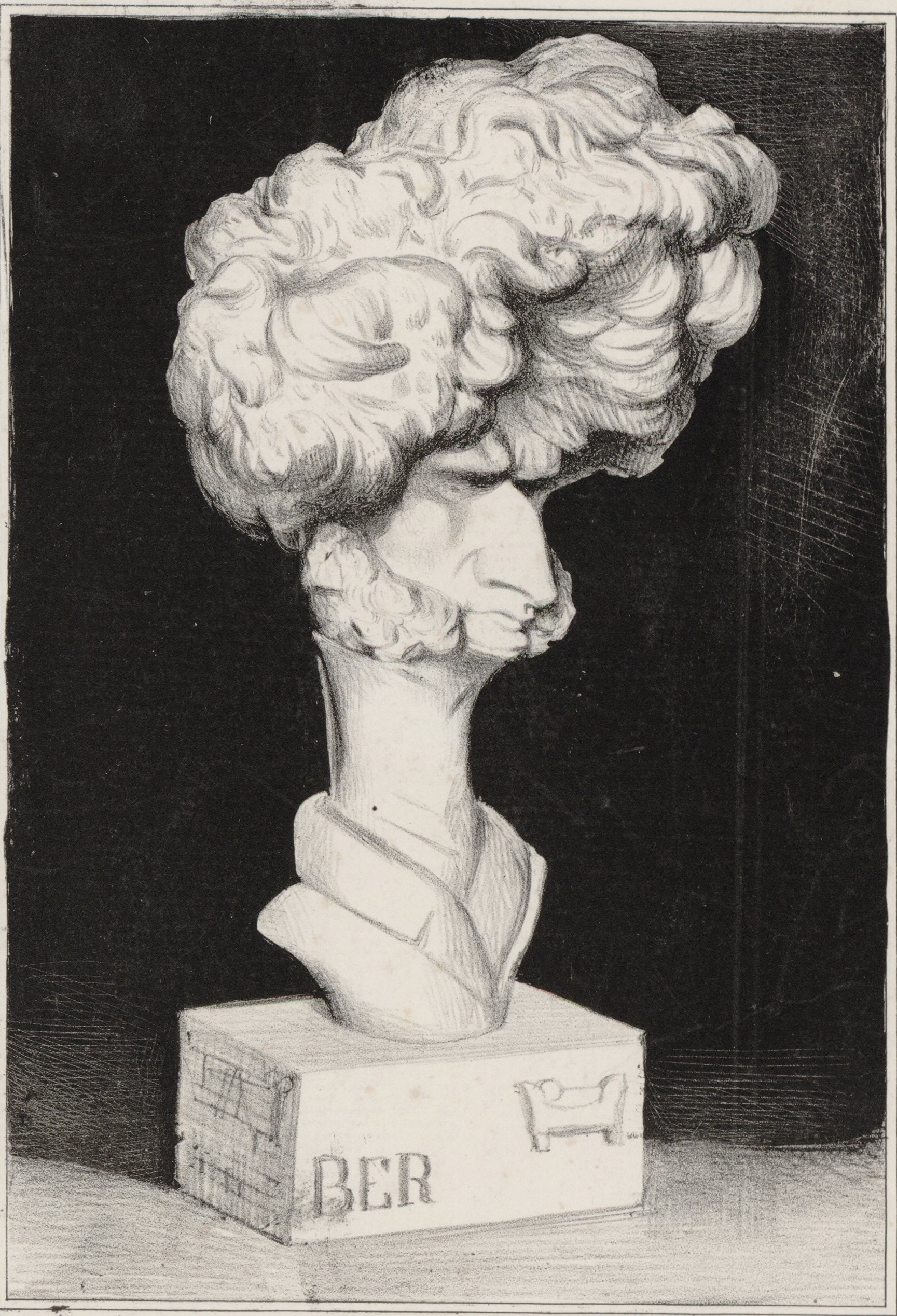 Hector Berlioz by Charles Ramelet (1805-1851) after a bust by Jean-Pierre Dantan (1800-1869)